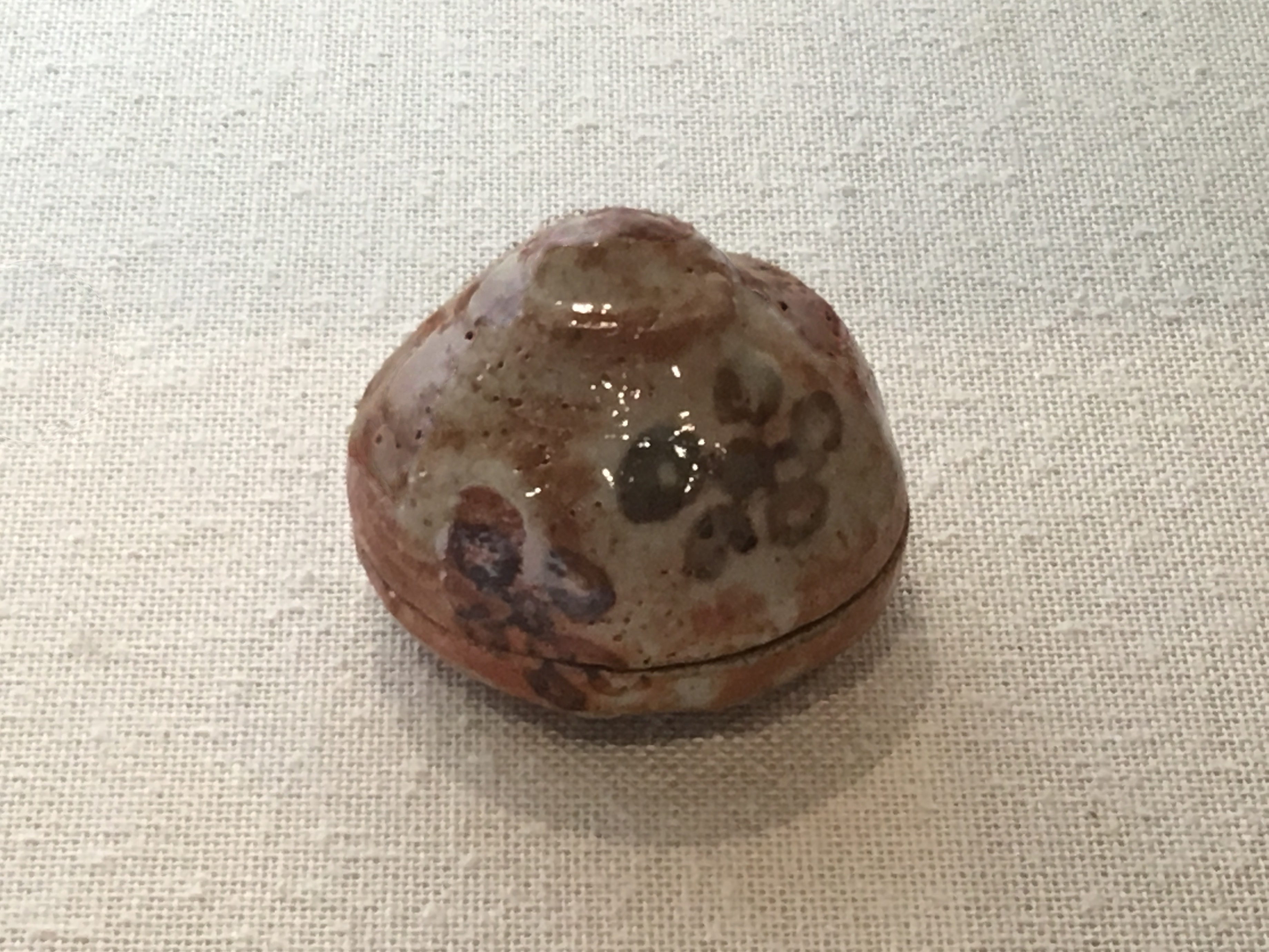 Incense container, hōju jewel shape, Shino type Nagoya, Hirasawa Kurō I Edo period, 18th-19th century Private collection